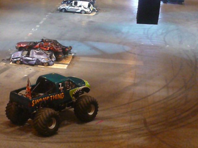 The Swamp Thing monster truck at the Monster Jam event in Birmingham's NIA (UK), 2010